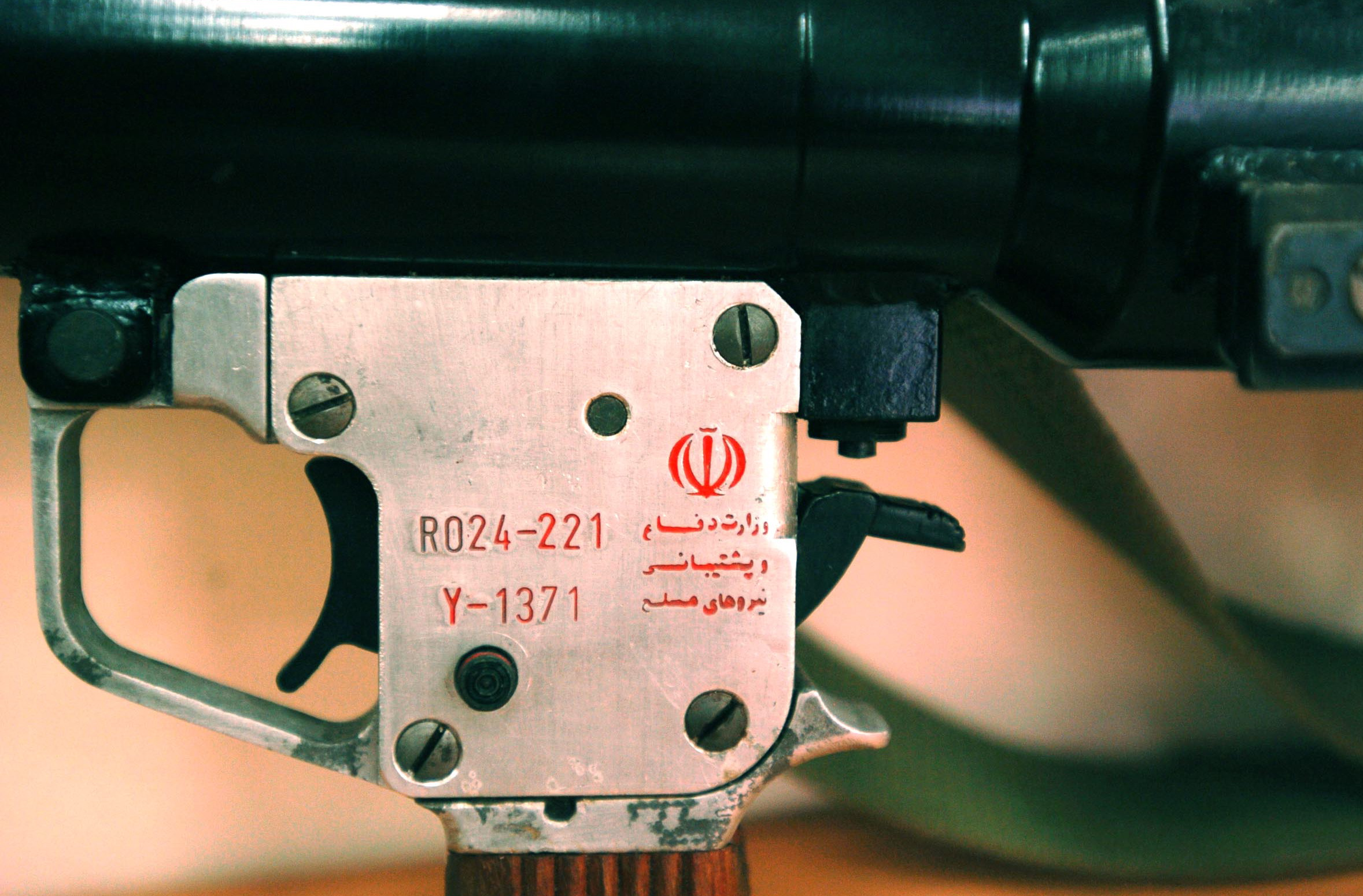 July 23, 2006 An RPG missile found in Lebanon with a manufacturing symbol of the Iranian Army displayed by the IDF intelligence branch. The marking on the right belongs to the Iranian Ministry of Defence and Armed Forces Logistics